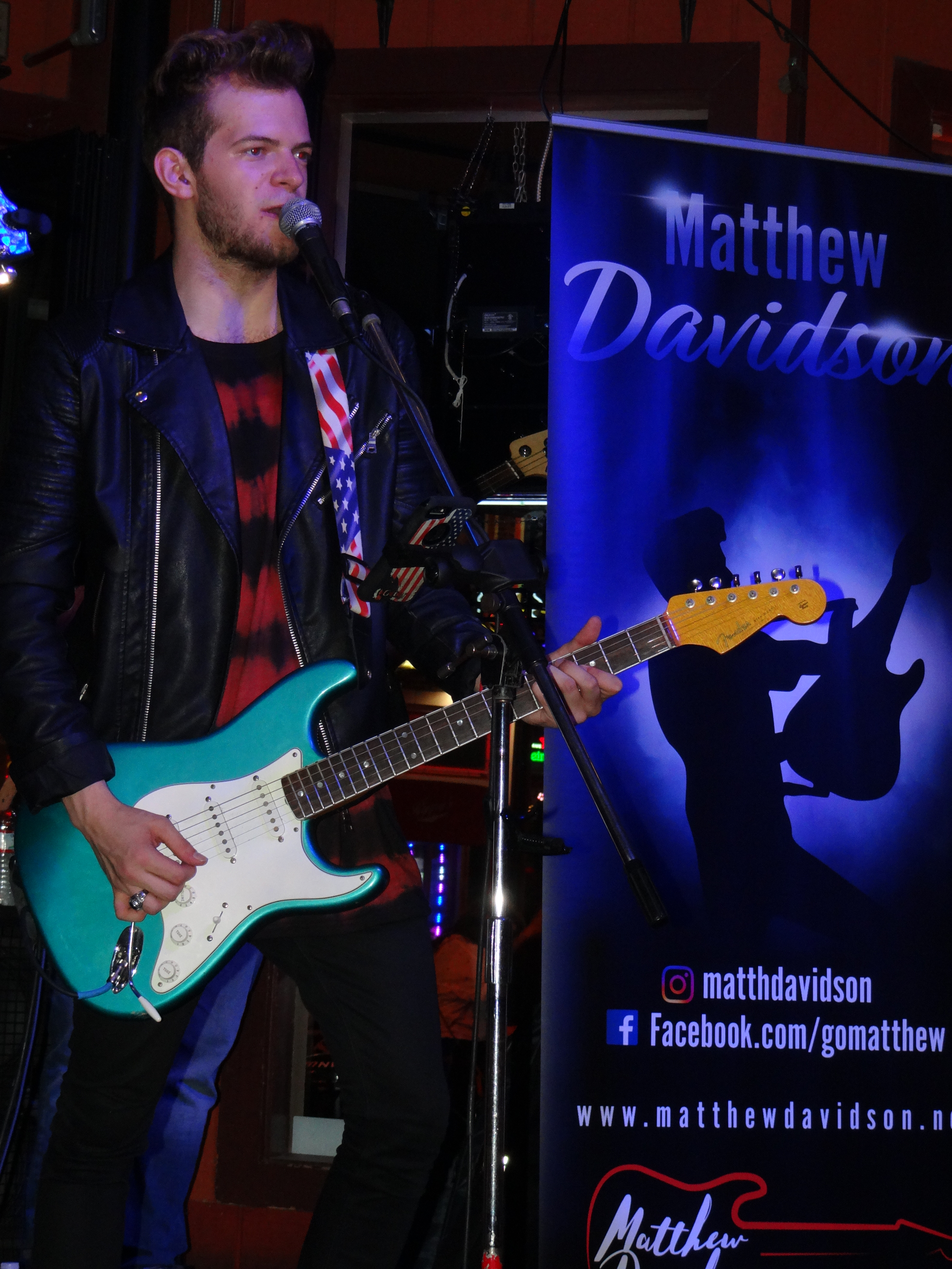 Matthew Davidson performing in Nashville, TN